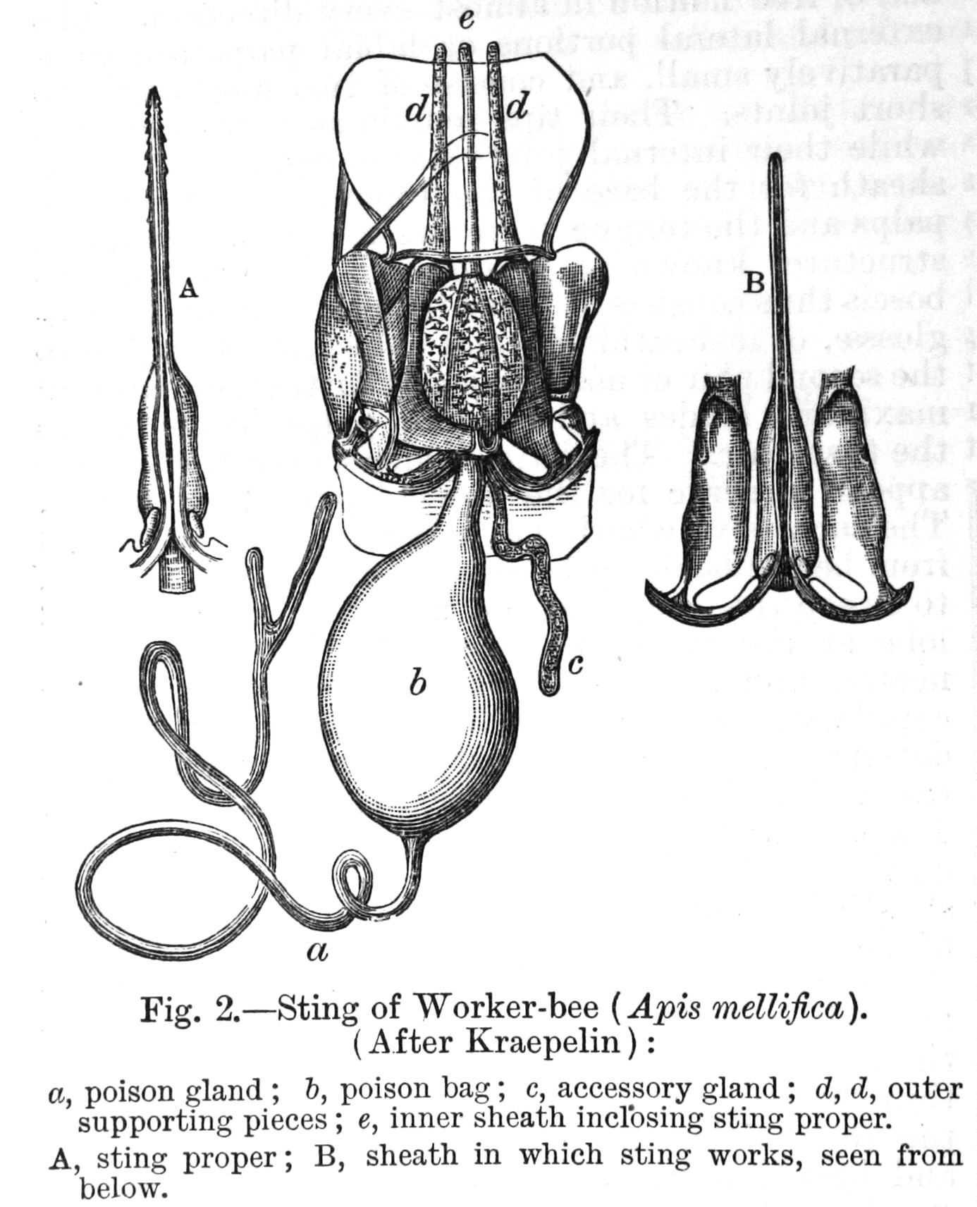 Diagram of sting of worker-bee (Apis mellifera)